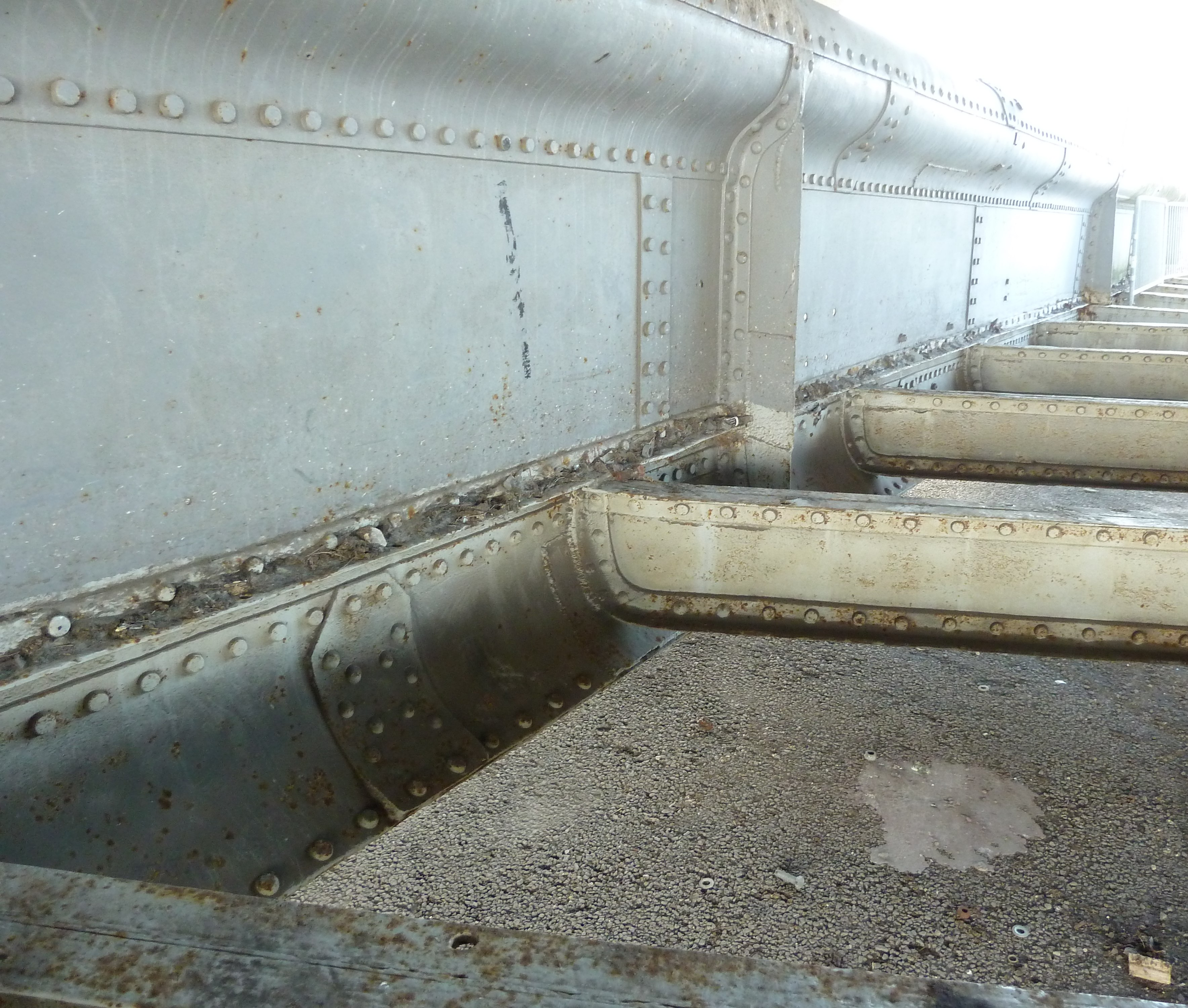 Brunel's tubular wrought iron bridges over the entrance locks to the Cumberland Basin, Bristol Docks.